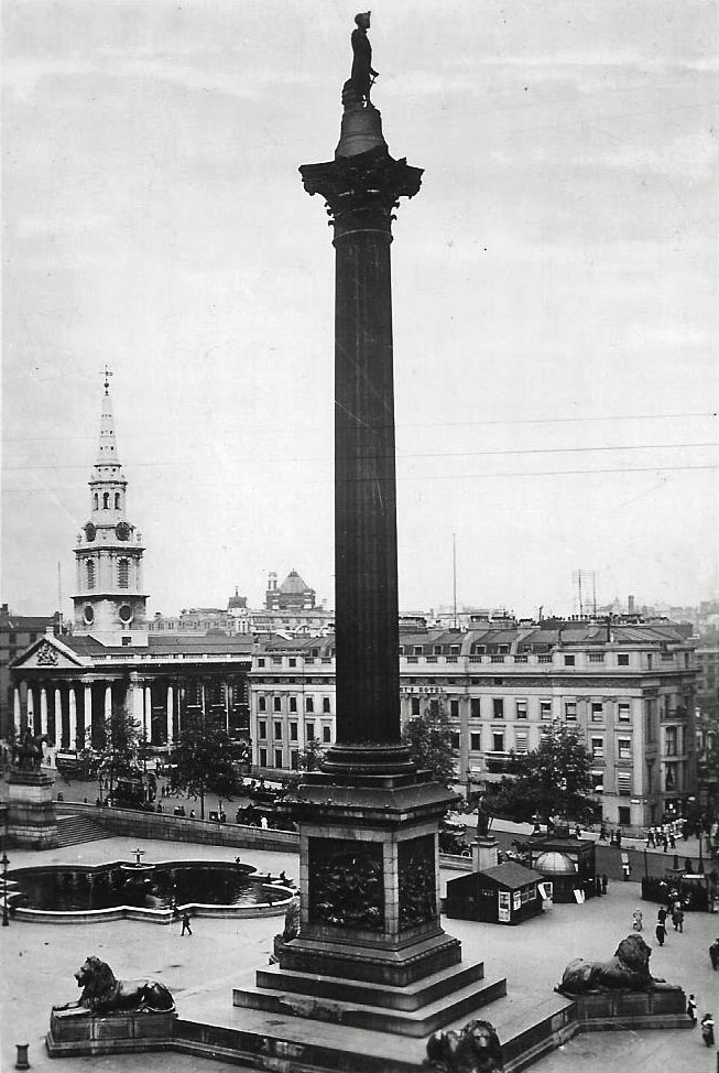 This is a Selfridge's postcard showing the east side of Trafalgar Square after the end of of WW1, probably 1919. There are two temporary structures shown near the entrance to the Trafalgar Square underground station, they were a YMCA hut for servicemen and a Bank of England hut where War Bonds were sold. The YMCA hut had been erected shortly after the start of the war and the Bank of England hut sometime later in about 1917. In early November 1918 there was an exhibition of captured German guns in the Mall, over 400 were on display along both sides of the Mall. On Wednesday 13th November crowds of revellers took several of the guns to Trafalgar Square and attempted to burn them on a bonfire which damaged the plinth of Nelson's column and the surrounding paving. I believe that the damage shown in the photograph was caused in this incident. The damage itself could still be seen for sometime into the 1950s before it was repaired.